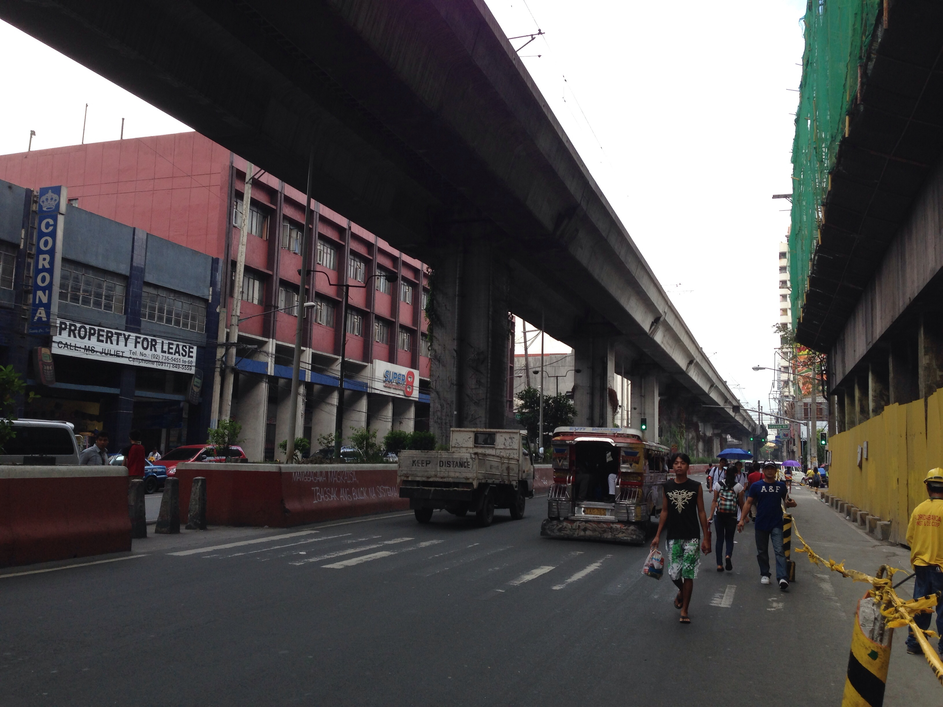 Recto Avenue, Quiapo, Manila (University Belt area)